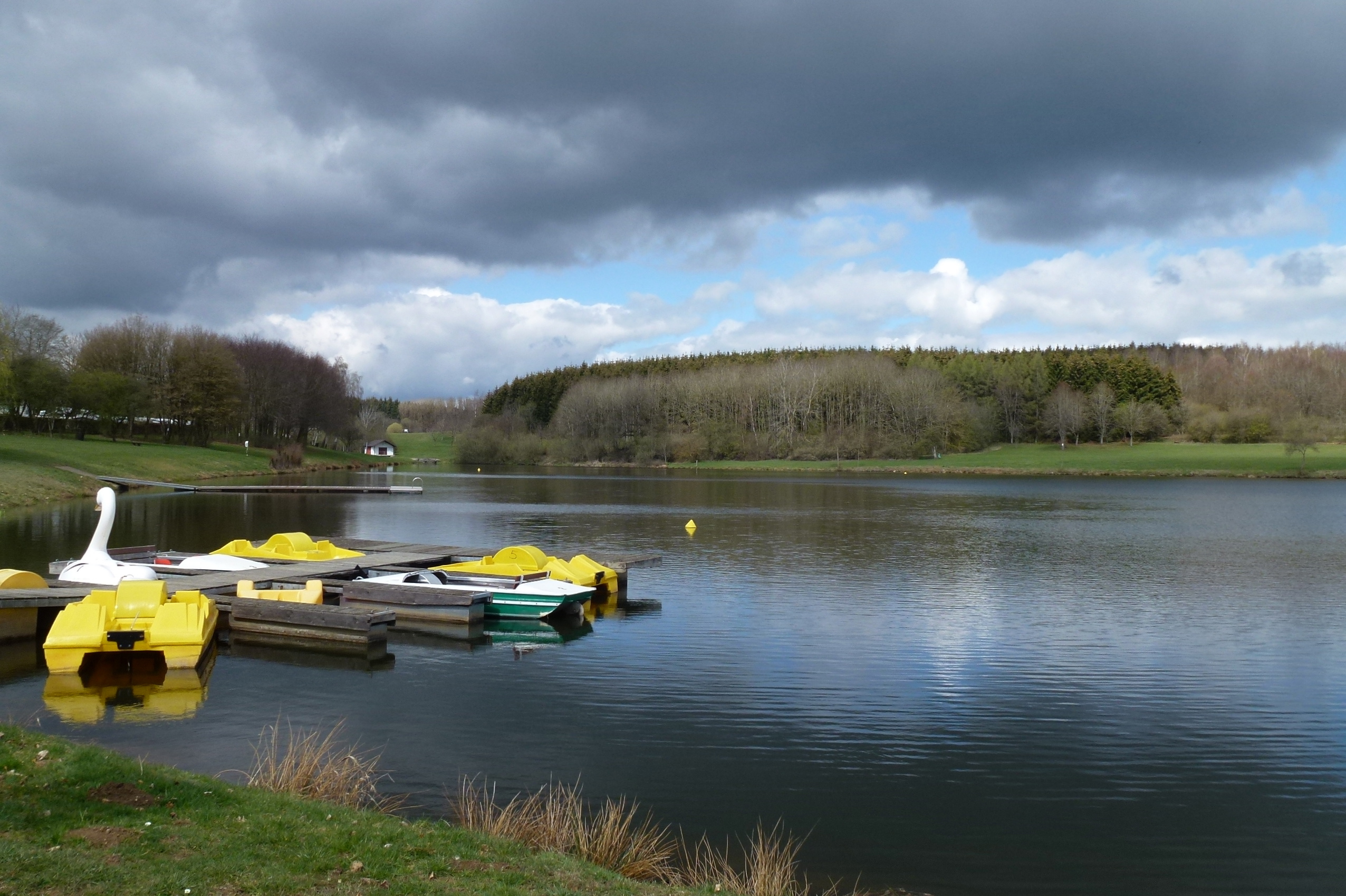 CLOUDY DAY in WEISWAMPACH, Oesling, Luxembourg